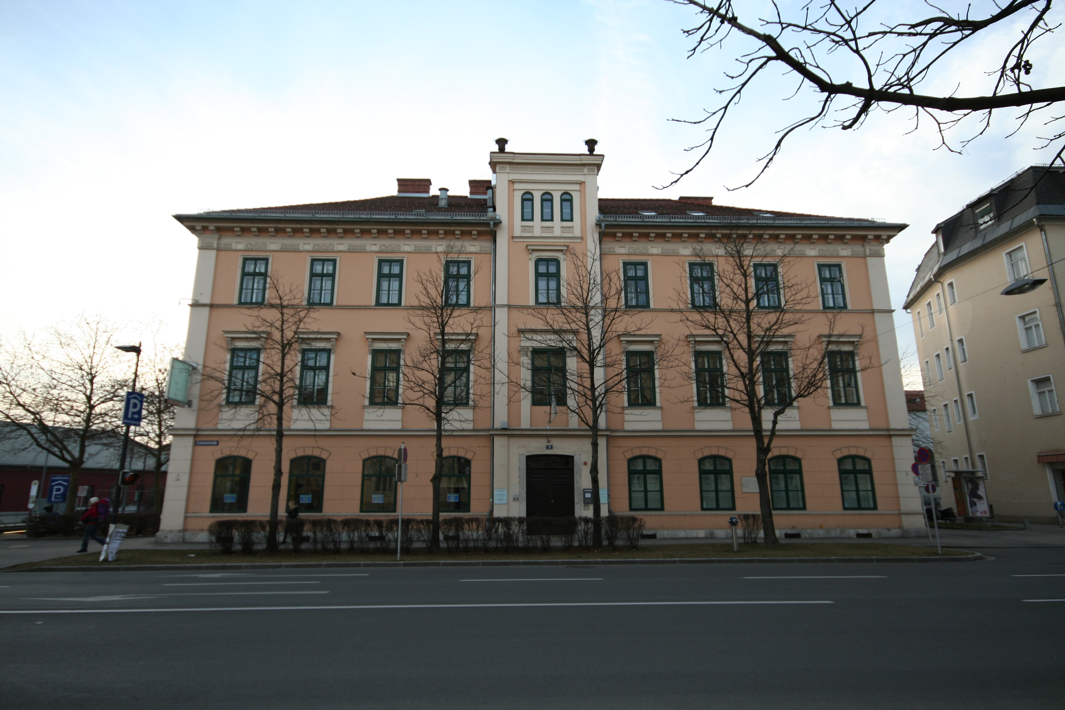 Birthplace of the famous Austrian author Robert Musil, Bahnhofstrasse #50, situated in the 7th district "Viktringer Vorstadt" of the Carinthian capital Klagenfurt, Carinthia, Austria